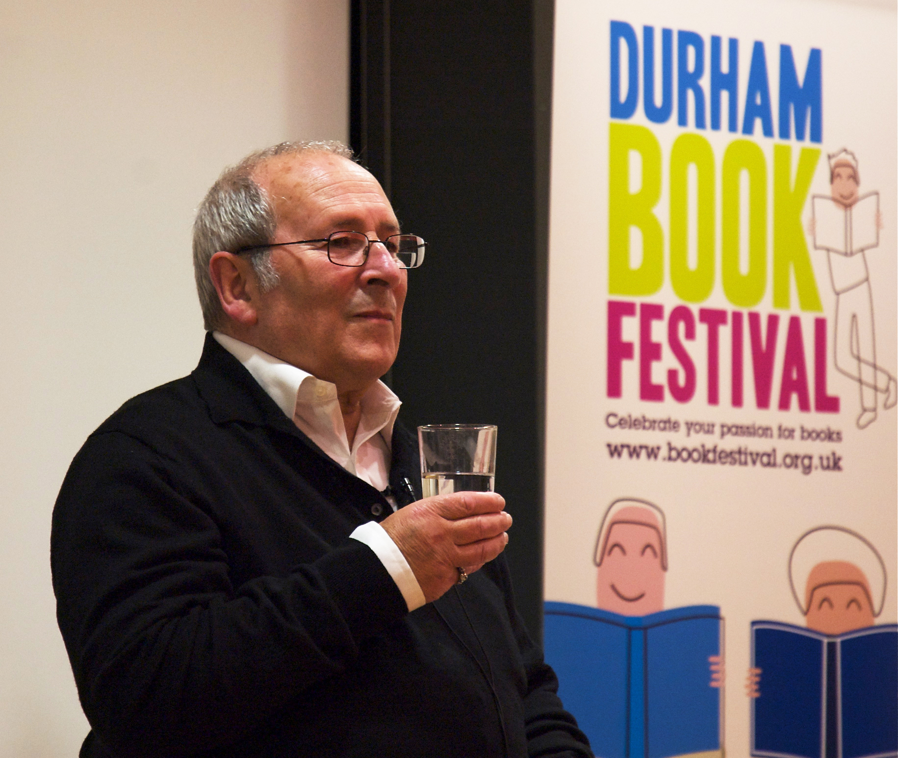 Arnold Wesker at the Durham Book Festival, 24 October 2008